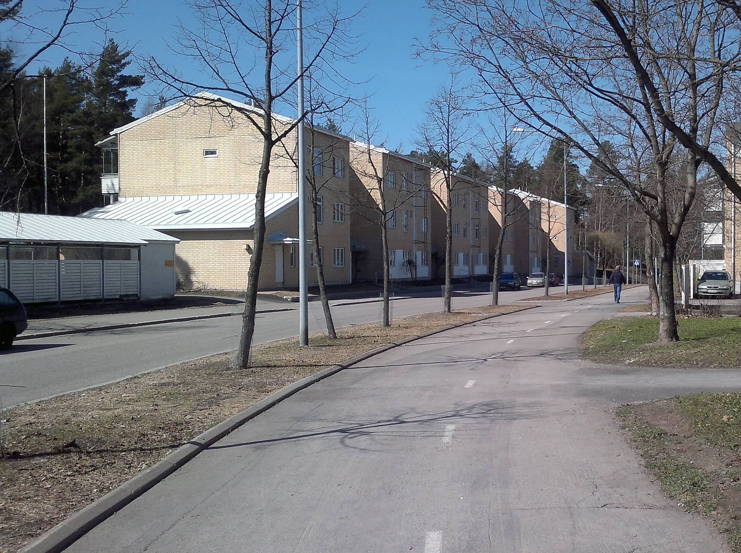 Kurkimäentie street in Kurkimäki district, Helsinki